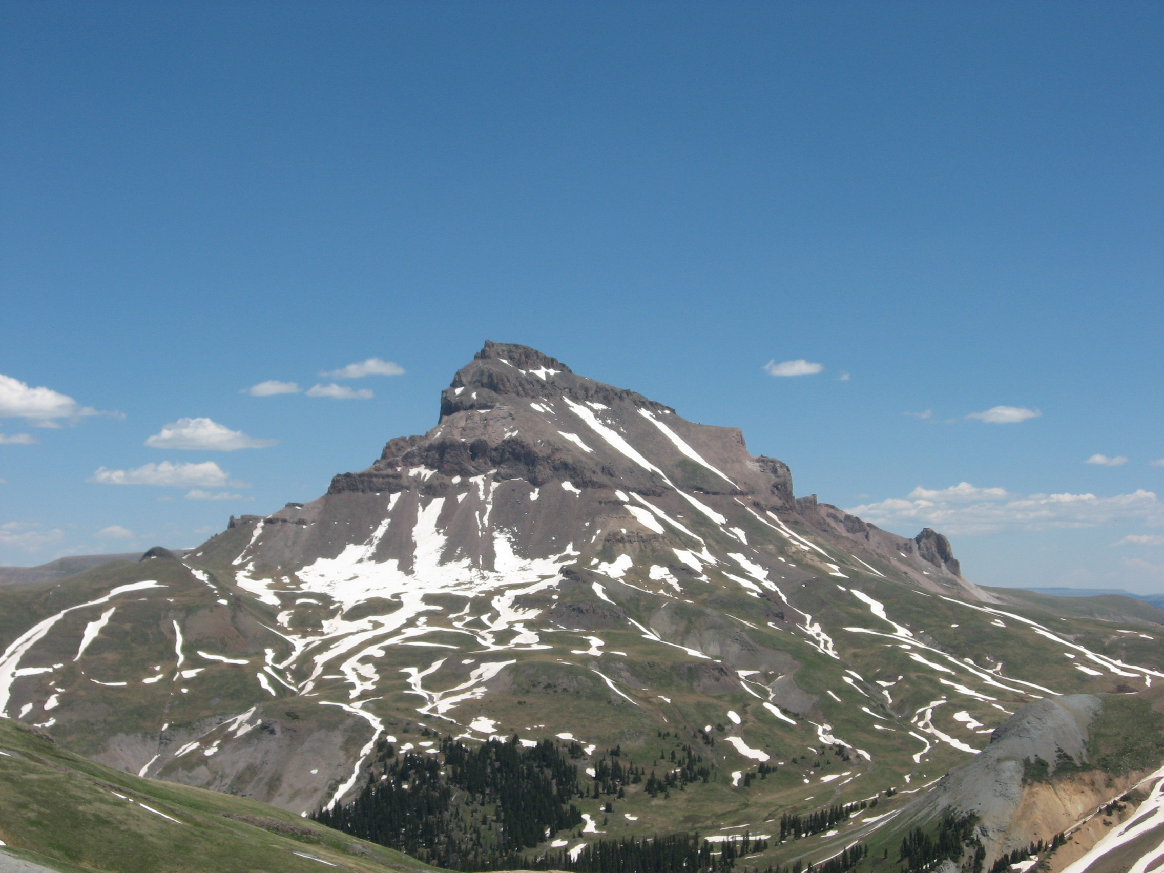 Umcompahgre peak, the highest mountain in the San Juan Mountain range.